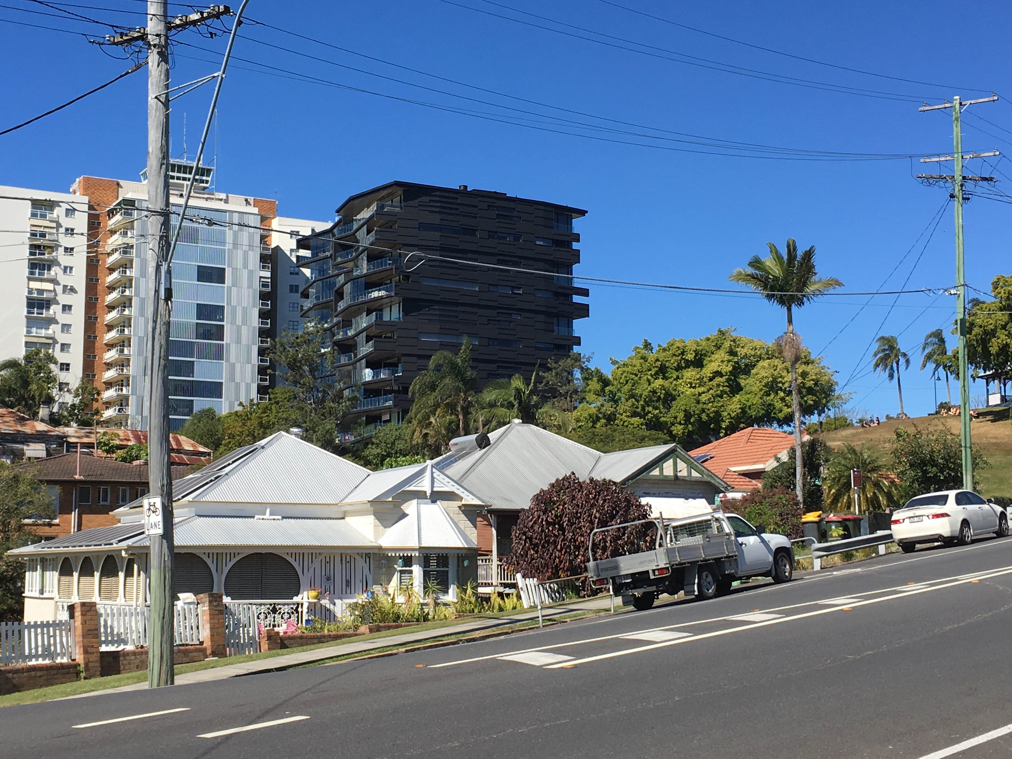 A view of Highagte Hill, Queensland showing old and new residential buildings.